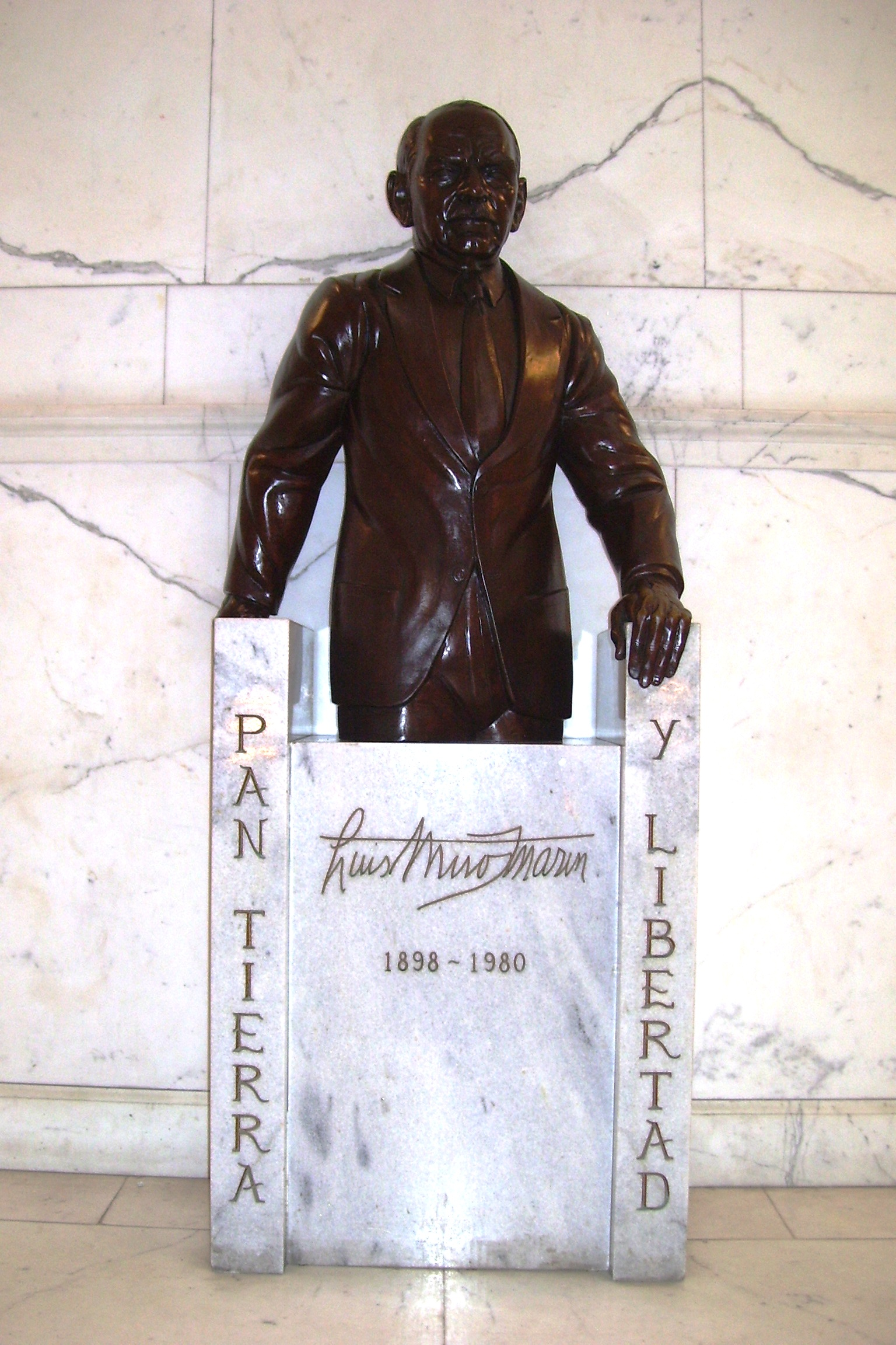 Sculpture of Luis Muñoz Marín inside Capitolio de Puerto Rico